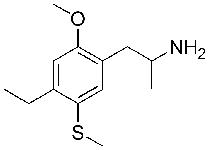 Chemical structure of 5-TOET, drawn in ChemDraw by User:Mark PEA.